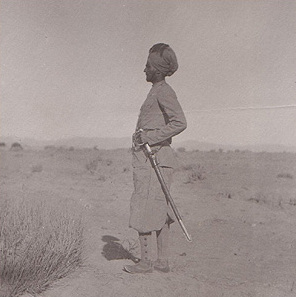 A Pashtun sepoy during the Siege of Malakand